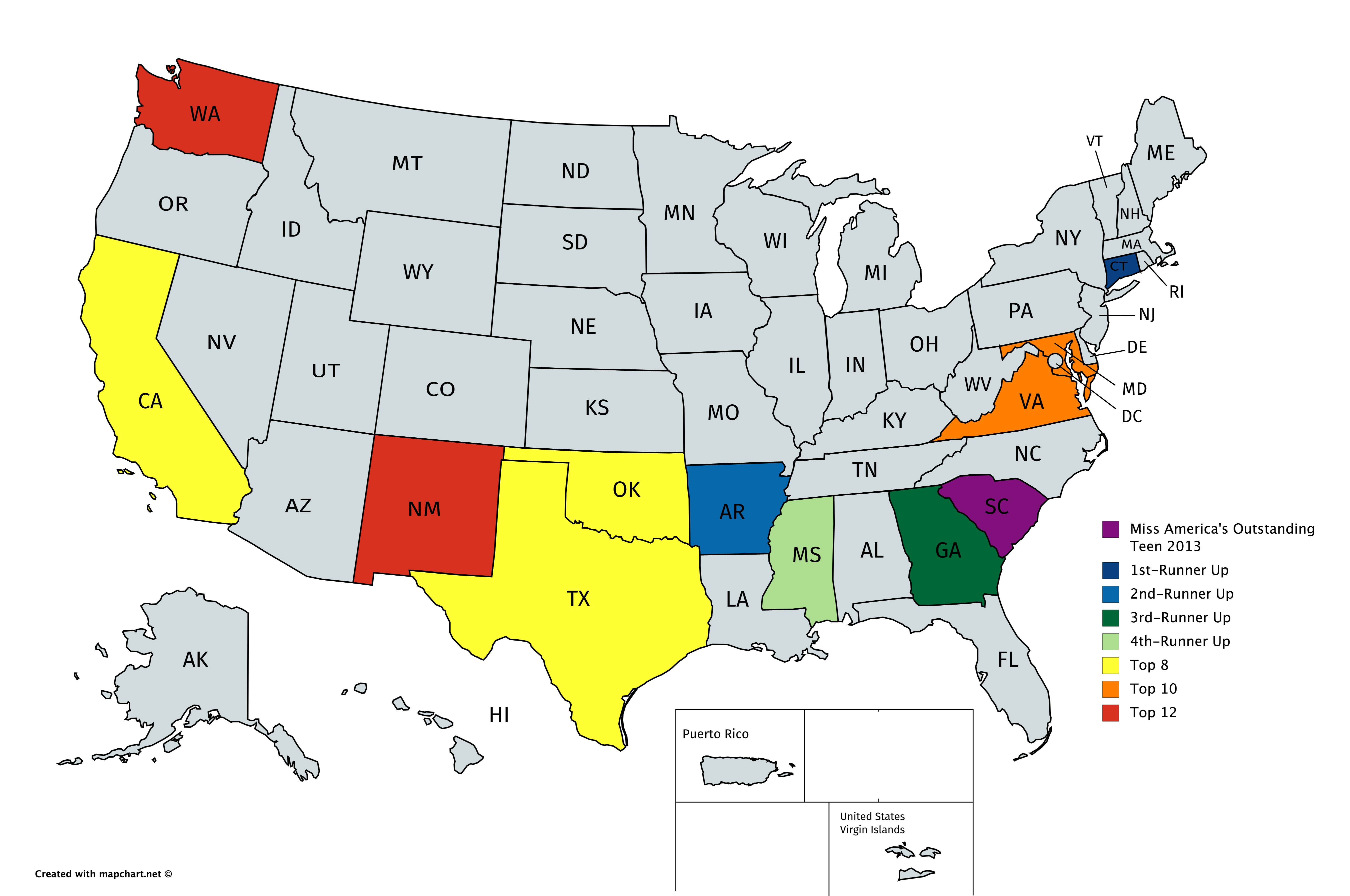 Placements of Miss America's Outstanding Teen 2013 on a map